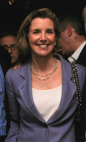 Chitra Wadhwani (CBS), Thomas Danaher , Sallie Krawcheck and Jon Ledecky (UTA Media Partners).